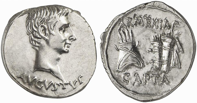 Augustus. 27 BC-AD 14. Denarius (Silver, 3.77 g 1), Pergamon, circa 19-18 BC. AVGVSTVS Bare head of Augustus to right. ARMENIA CAPTA Armenia tiara and bowcase with quiver. BMC 677. BN 995. Cohen 11. RIC 516. Very rare. Somewhat brightly cleaned and with some minor traces of corrosion remaining, otherwise, nearly extremely fine. This coin celebrates one of the major triumphs of Augustus, his placing of a Roman candidate on the throne of Armenia. This occurred when the Armenians requested the Romans to replace their present king, Artaxias, with his Romanized brother Tigranes, who had been living as an exile in Rome for ten years. This was done by an army led by Tiberius: his success was so complete, and so swift, that the Parthian king Phraates IV decided to return all the Roman standards captured from Crassus at the battle of Carrhae in 53 BC (for another denarius commemorating the Armenian triumphs, see above, lot 168).